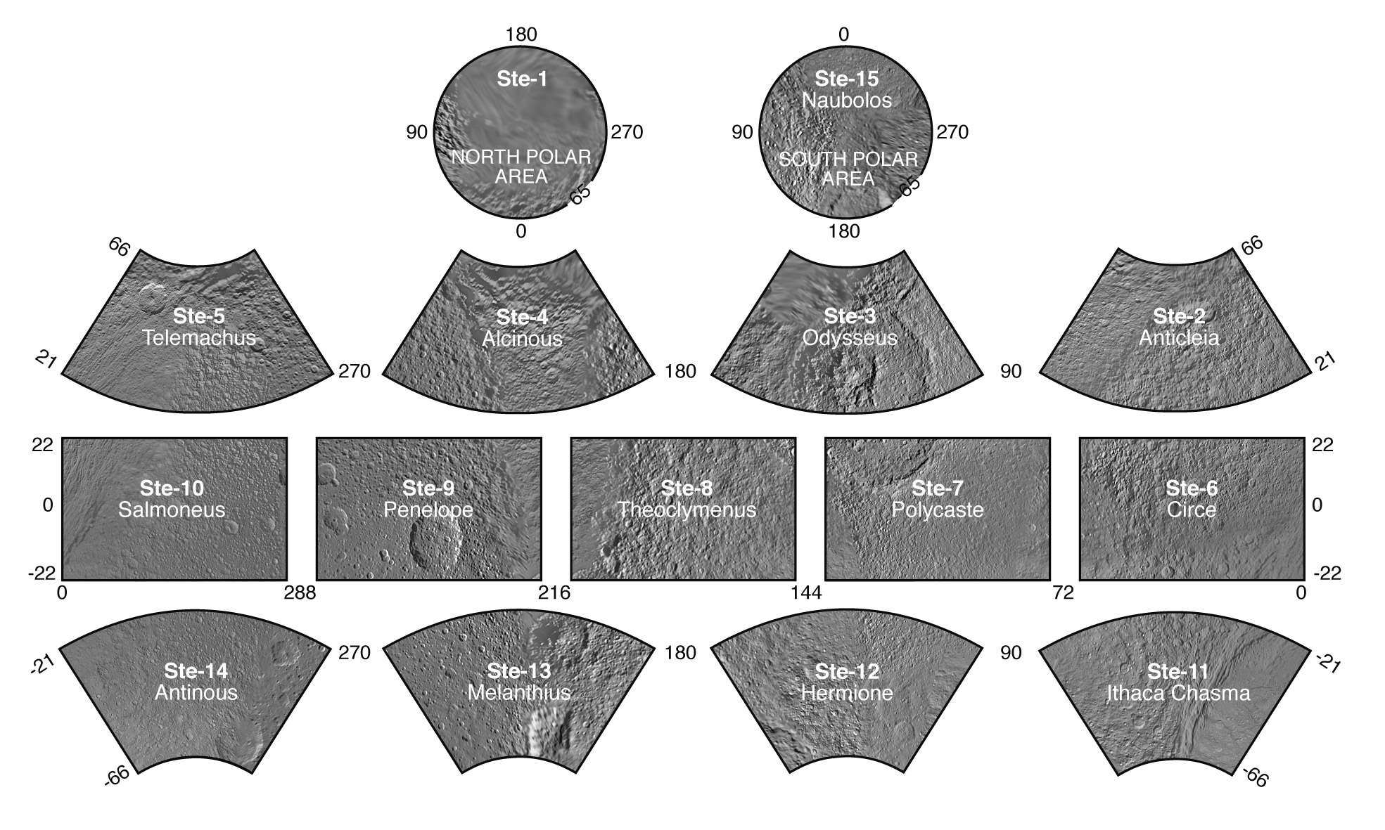 Overview of the quadrangles of Tethys